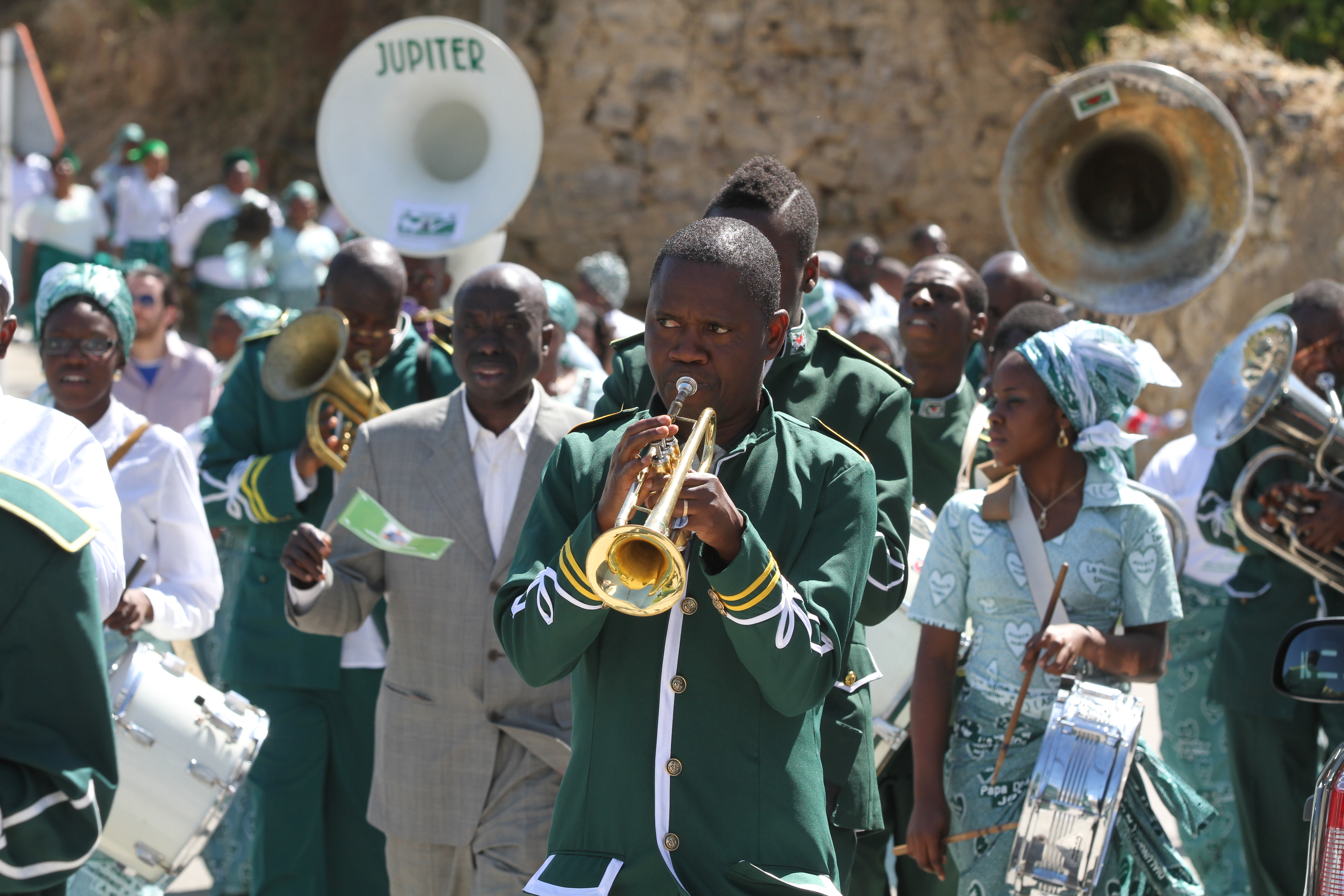 Members of the Kimbangu Church of Portugal celebrating New Year on May 25, 2013 outside Lisbon, Portugal.